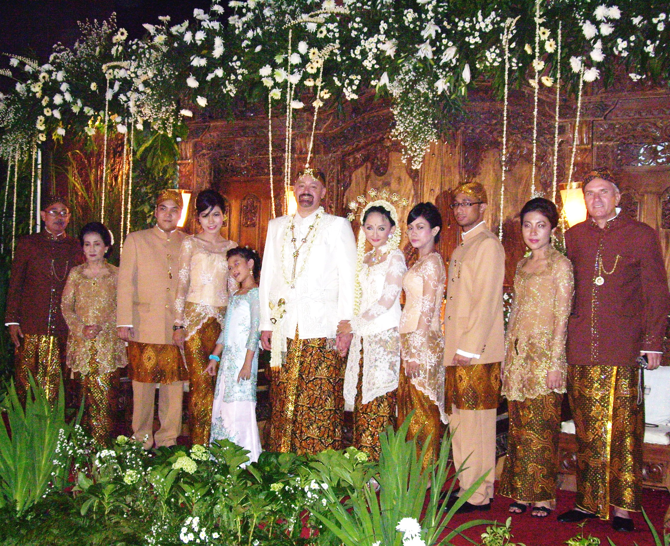 Sundanese wedding ceremony